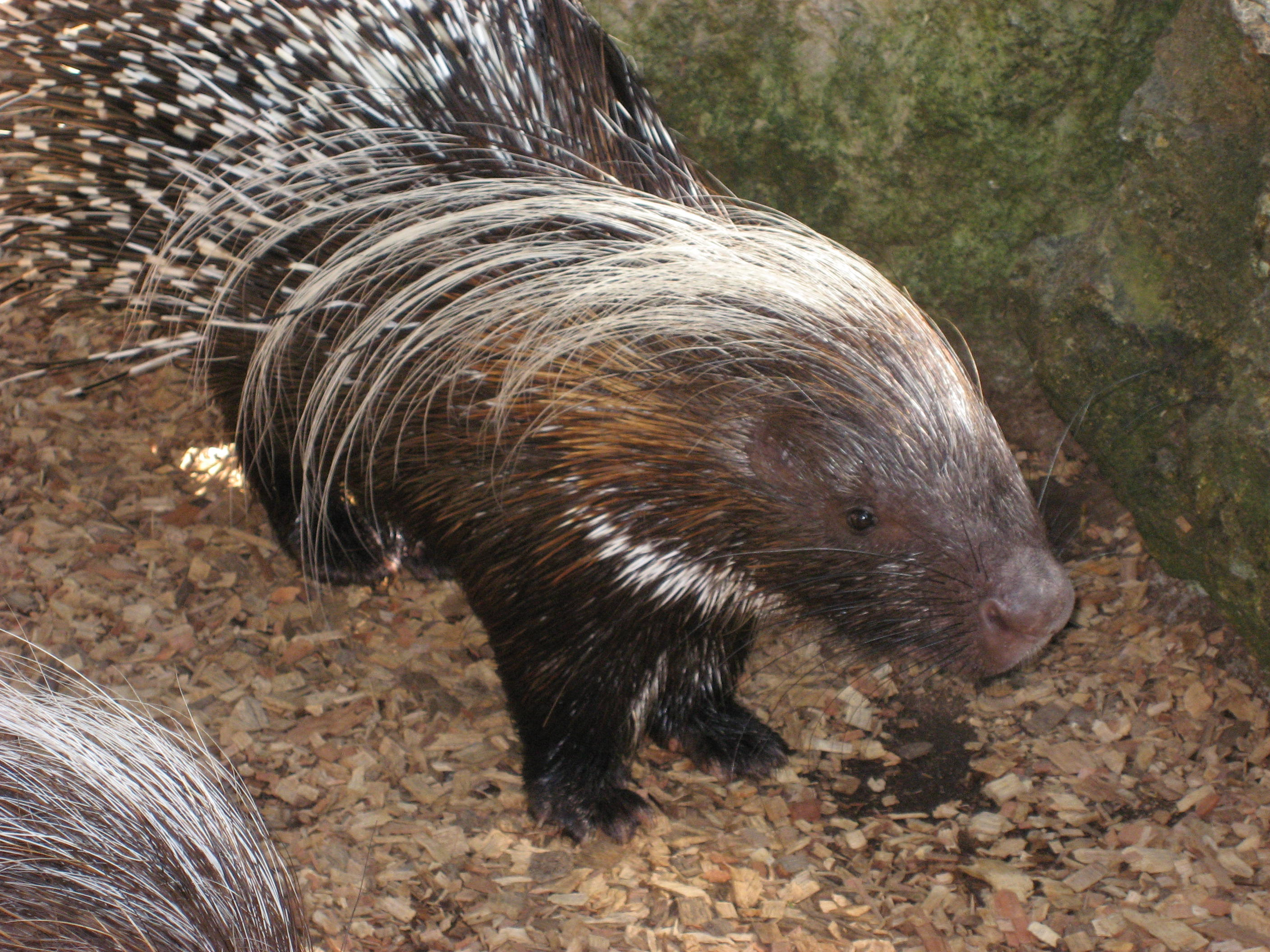 Hystrix cristata in Zoodyssée